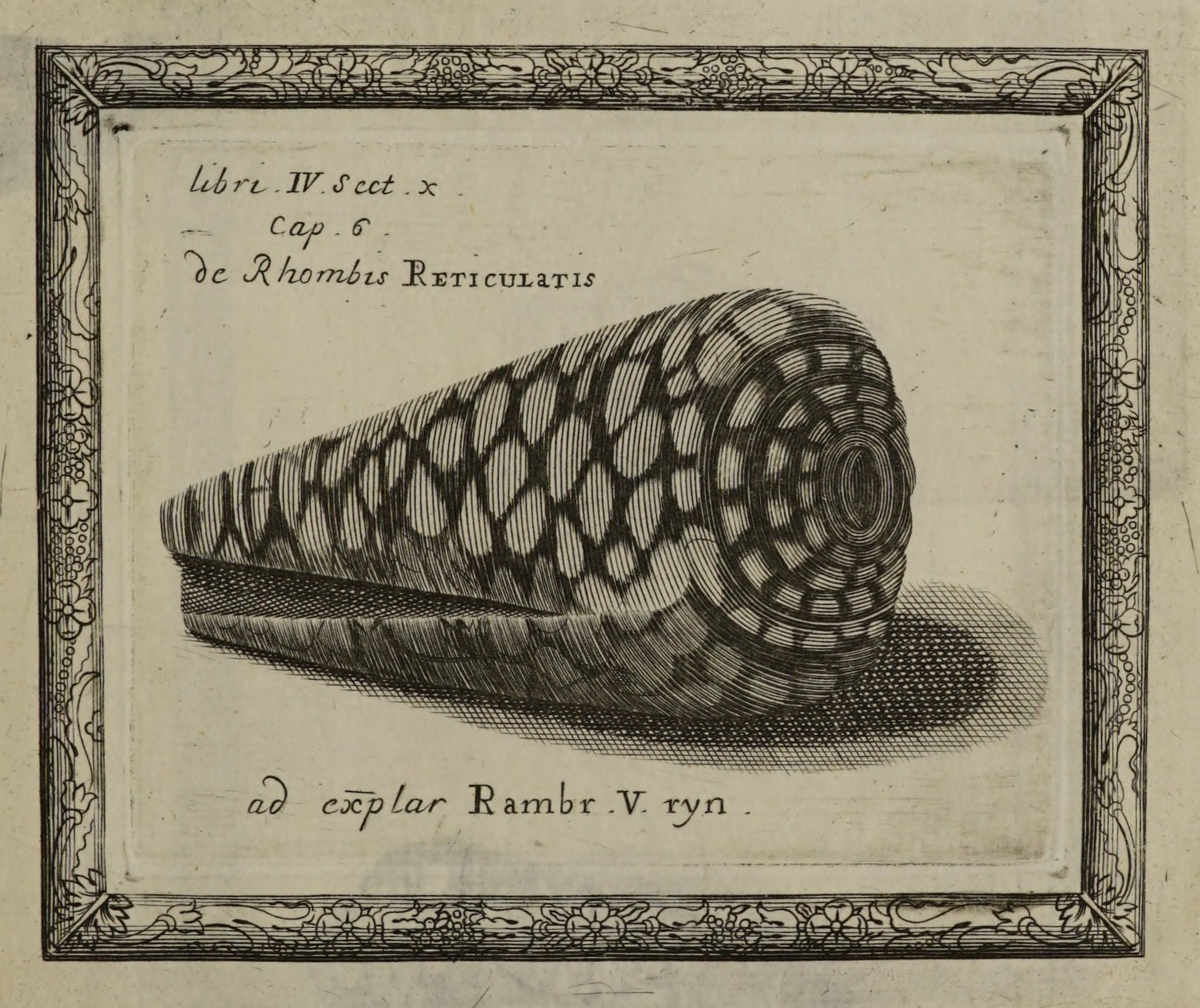 Conus marmoreus from Historiae Conchyliorum by Martin Lister, engraved by Anne Lister, c. 1685-1692